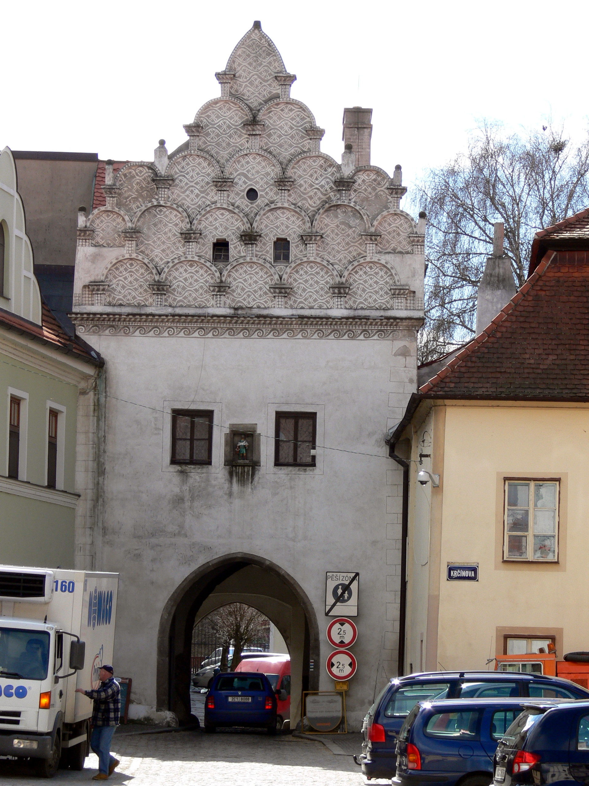 Třeboň. City gate.